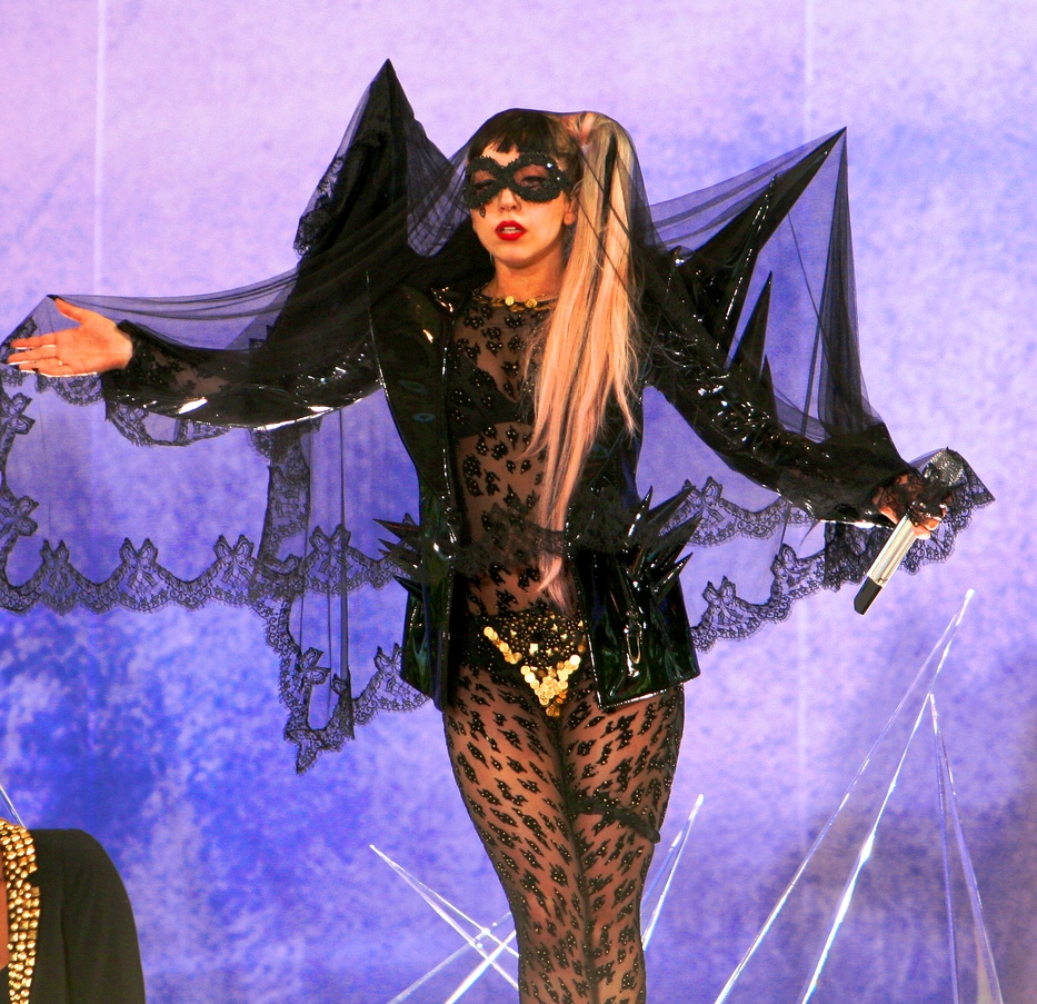 Lady Gaga performing "The Edge of Glory" on the Good Morning America Summer Concert series